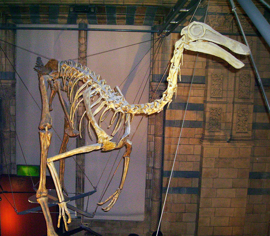 Gallimimus at the Natural History Museum, London. Photgraph by User:Ballista Image edited in Adobe PhotoShop CS by User:Firsfron